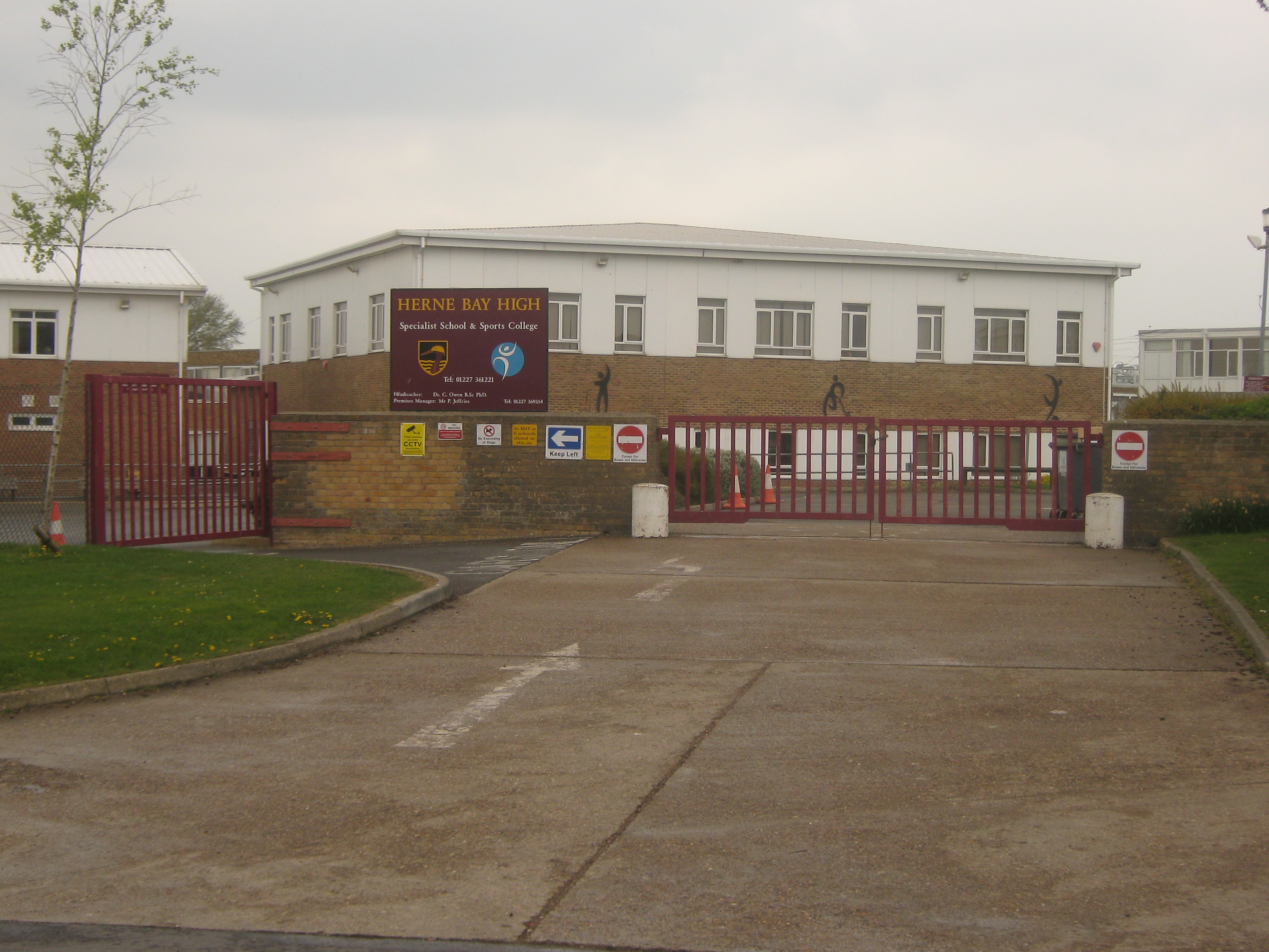 Entrance to Herne Bay High School: As seen from Bullockstone Road